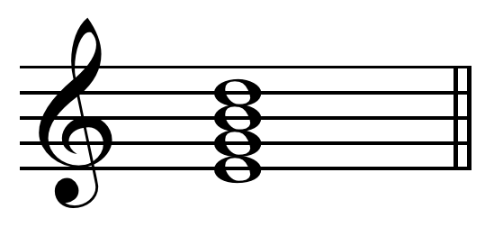 Minor seventh chord on e iii7 in C. Created by Hyacinth (talk) 07:26, 14 August 2011 (UTC) using Sibelius 5.